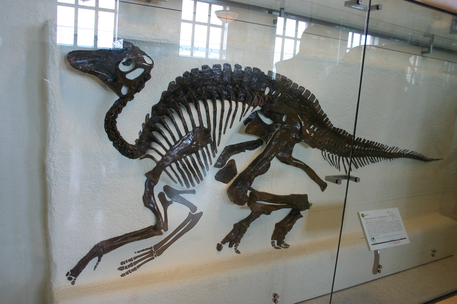 Juvenile lambeosaurine hadrosaur originally referred to Procheneosaurus praeceps, specimen number AMNH 5340. Visit my blog at